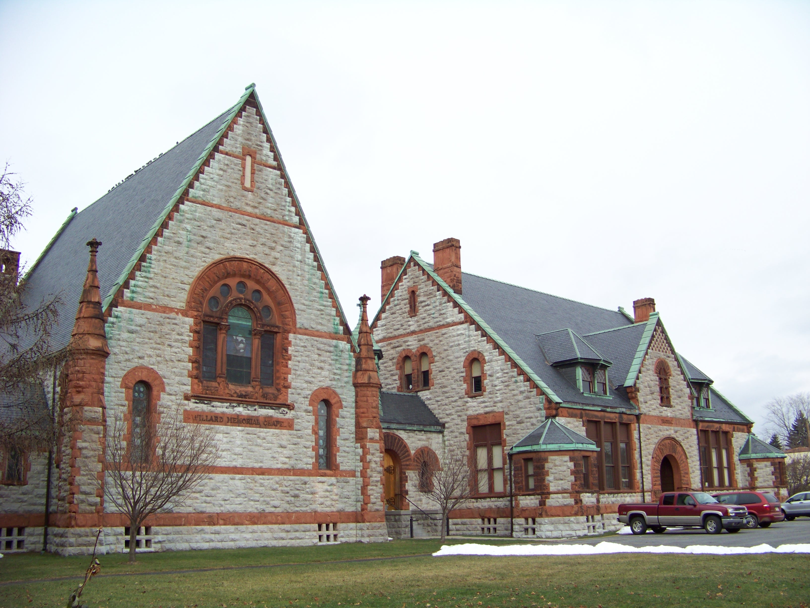 Willard Memorial Chapel — Romanesque Revival style facade. Located in Auburn, west-central New York state.